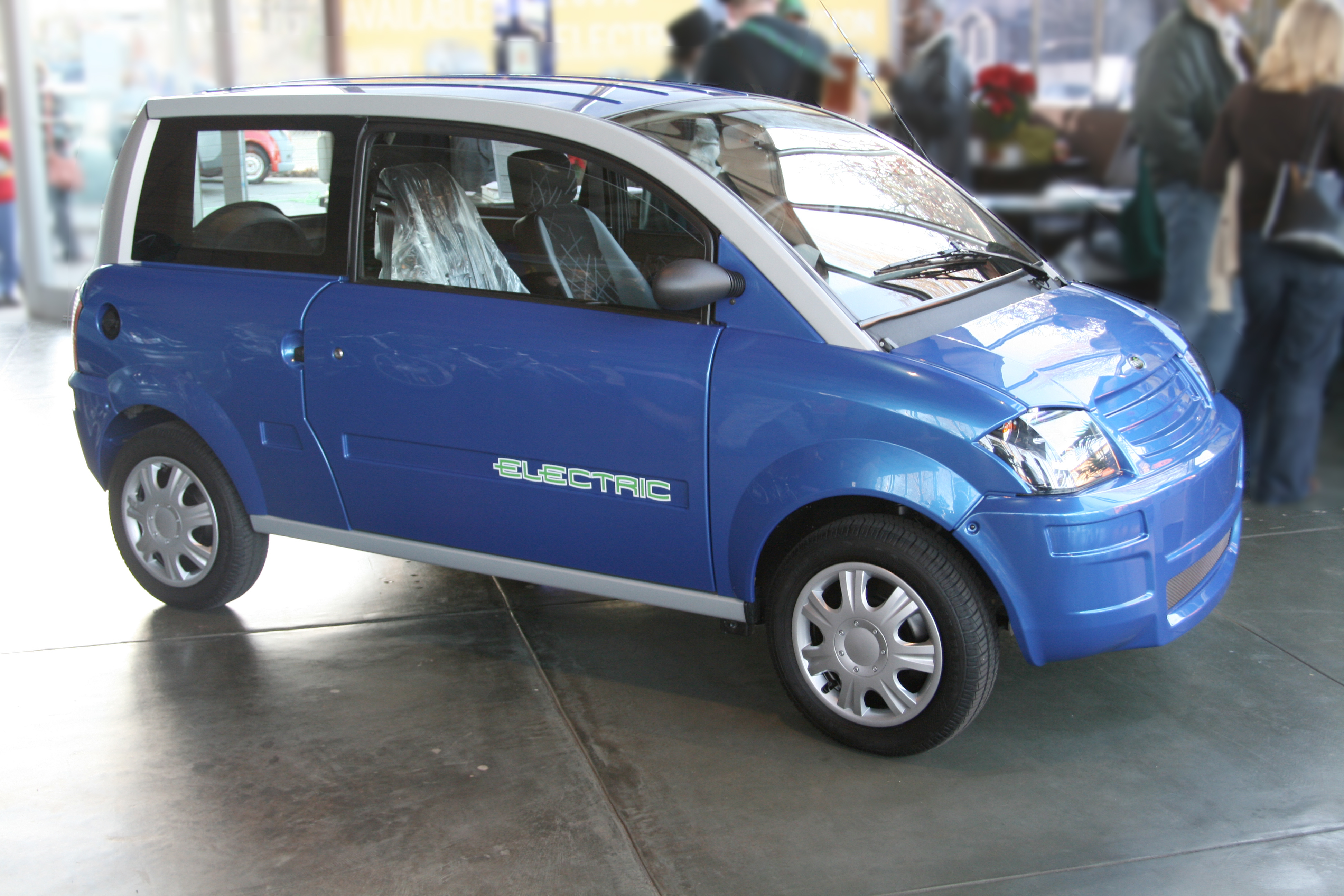 ZENN NEV at Green Motors ZENN introduction, Berkeley, California